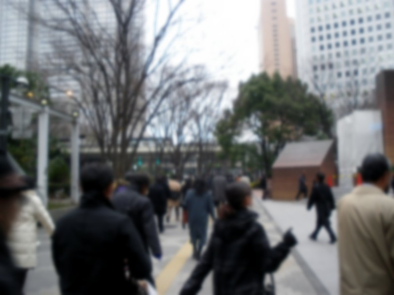 A photo of the scene of morning commute at Shinjuku skyscraper district.(Nishishinjuku, a representative business district in Tokyo.) Shinjuku-ku,Tokyo,Japan.